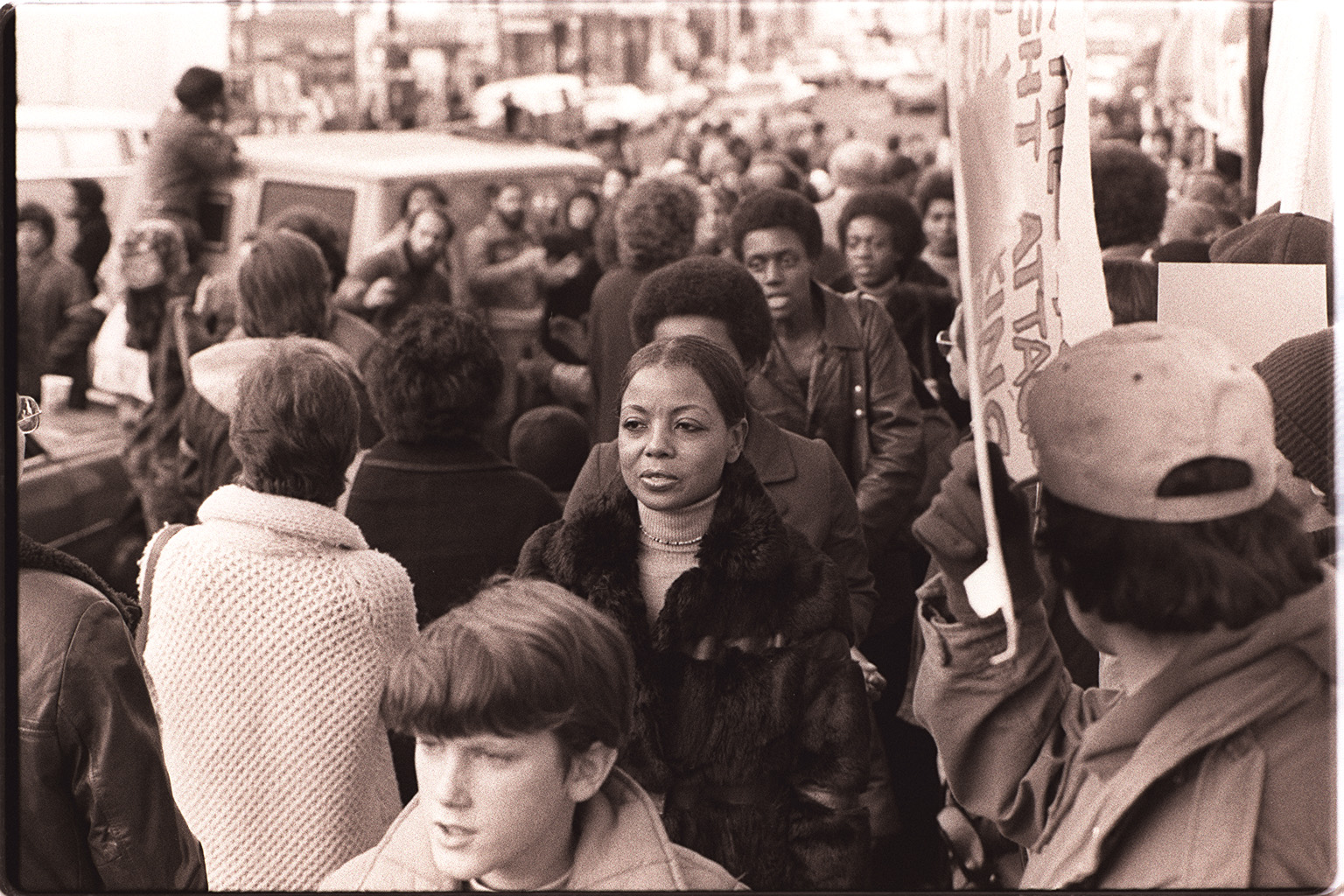 Protest to save the International Hotel on Kearny and Jackson Streets in San Francisco's Chinatown, January 1977. Members of Peoples Temple in the photo include Kelly Grubbs(foreground), Mabel Johnson, Viola Forks, Wanda King and Leola Morehead. Photo by Nancy Wong